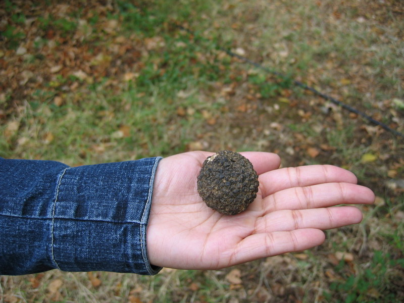 Truffle hunting in Montone